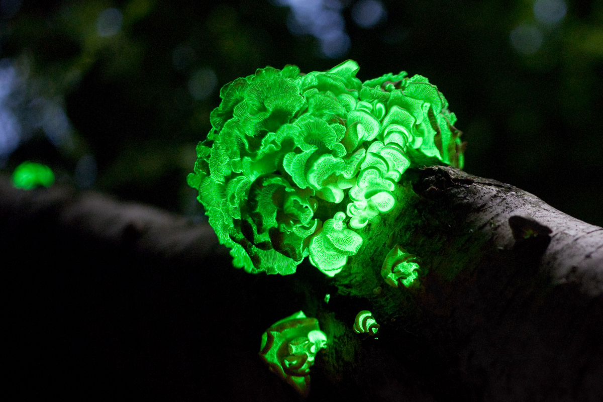 The saprobe Panellus Stipticus displaying bioluminescence.